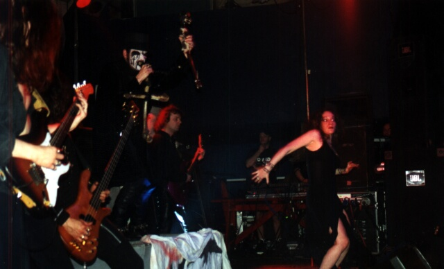 King Diamond at Wisla hall in Cracow